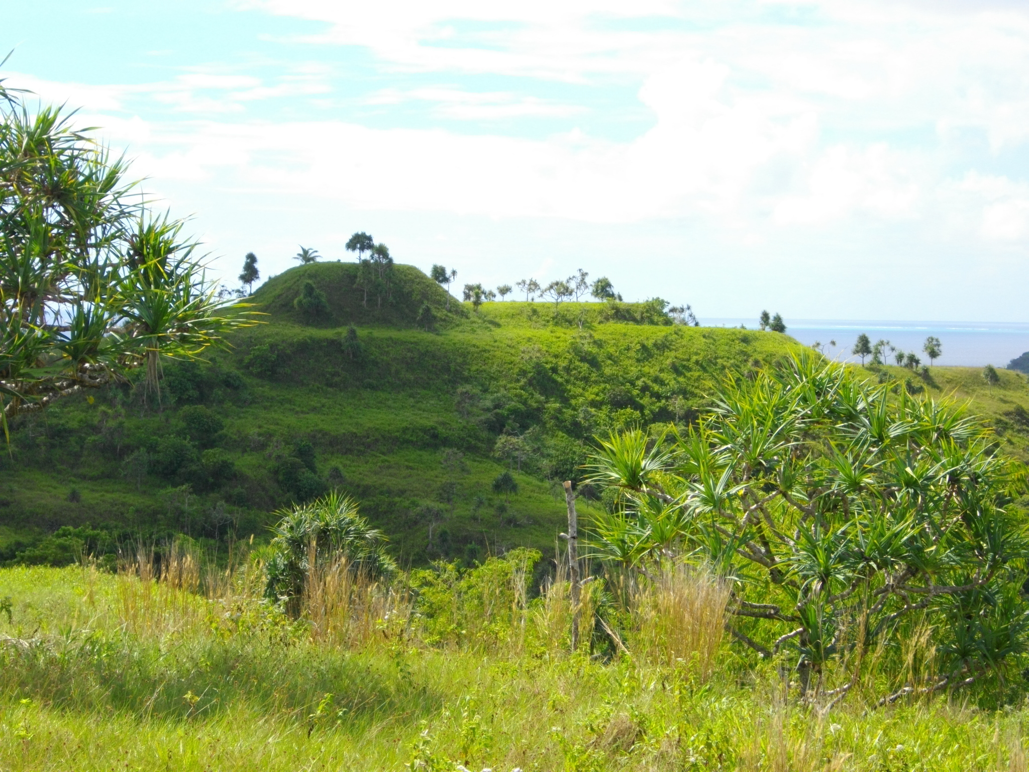 Chelechui Terraces